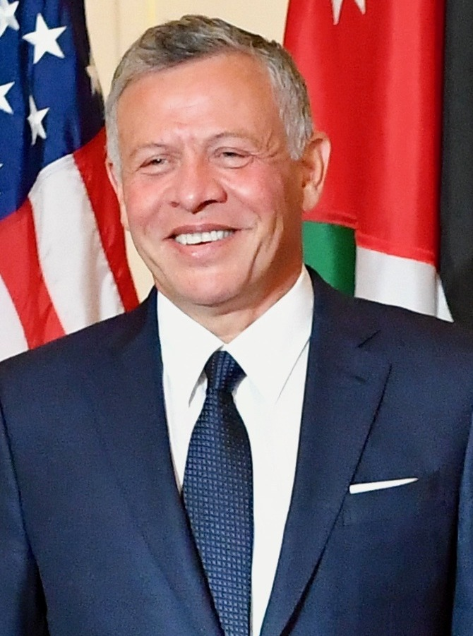 U.S. Secretary of State Michael R. Pompeo welcomes Jordanian King Abdullah II Ibn Al Hussein to the U.S. Department of State in Washington, D.C., on June 22, 2018. [State Department photo/ Public Domain]